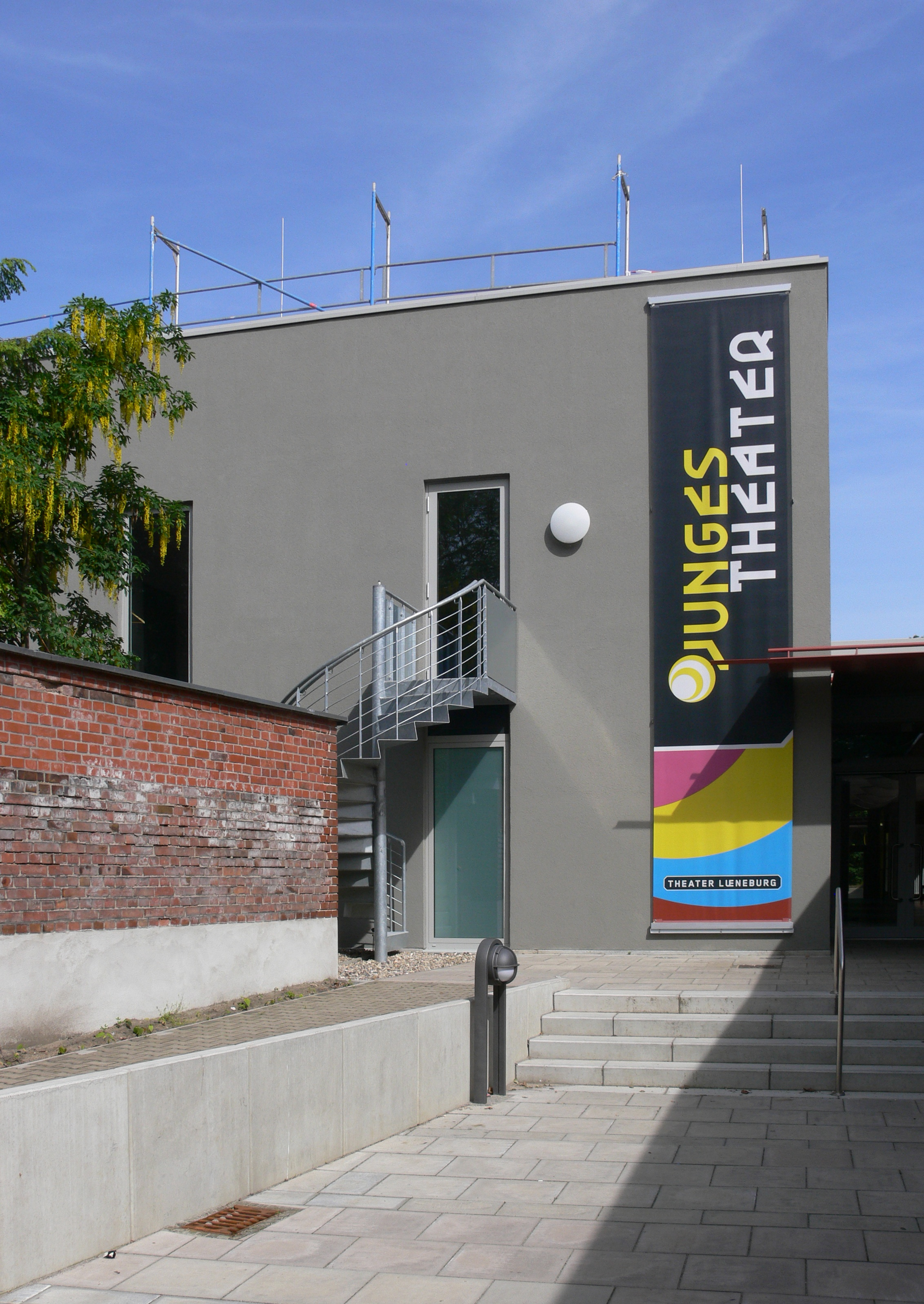 Theater Lüneburg, Junges Theater